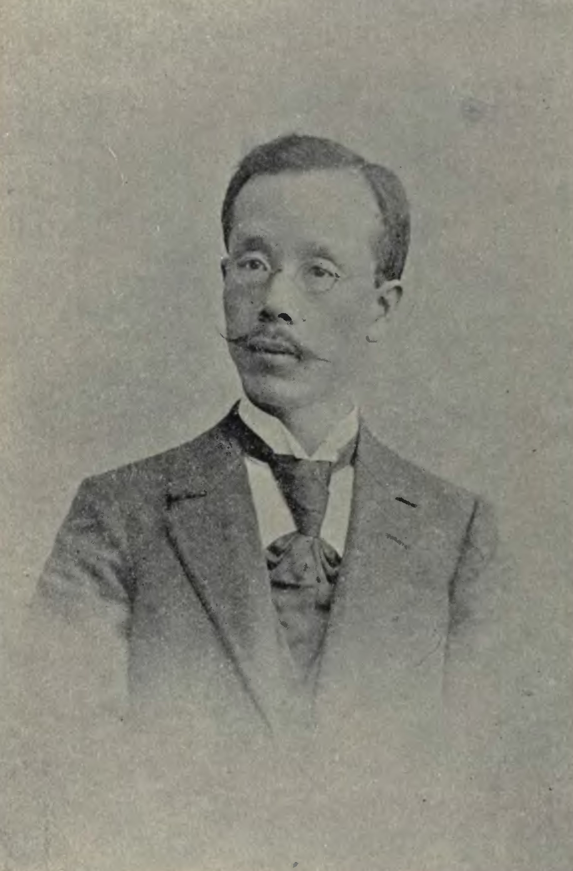 Hajime Onishi, in Leipzig, Germany, 1899.